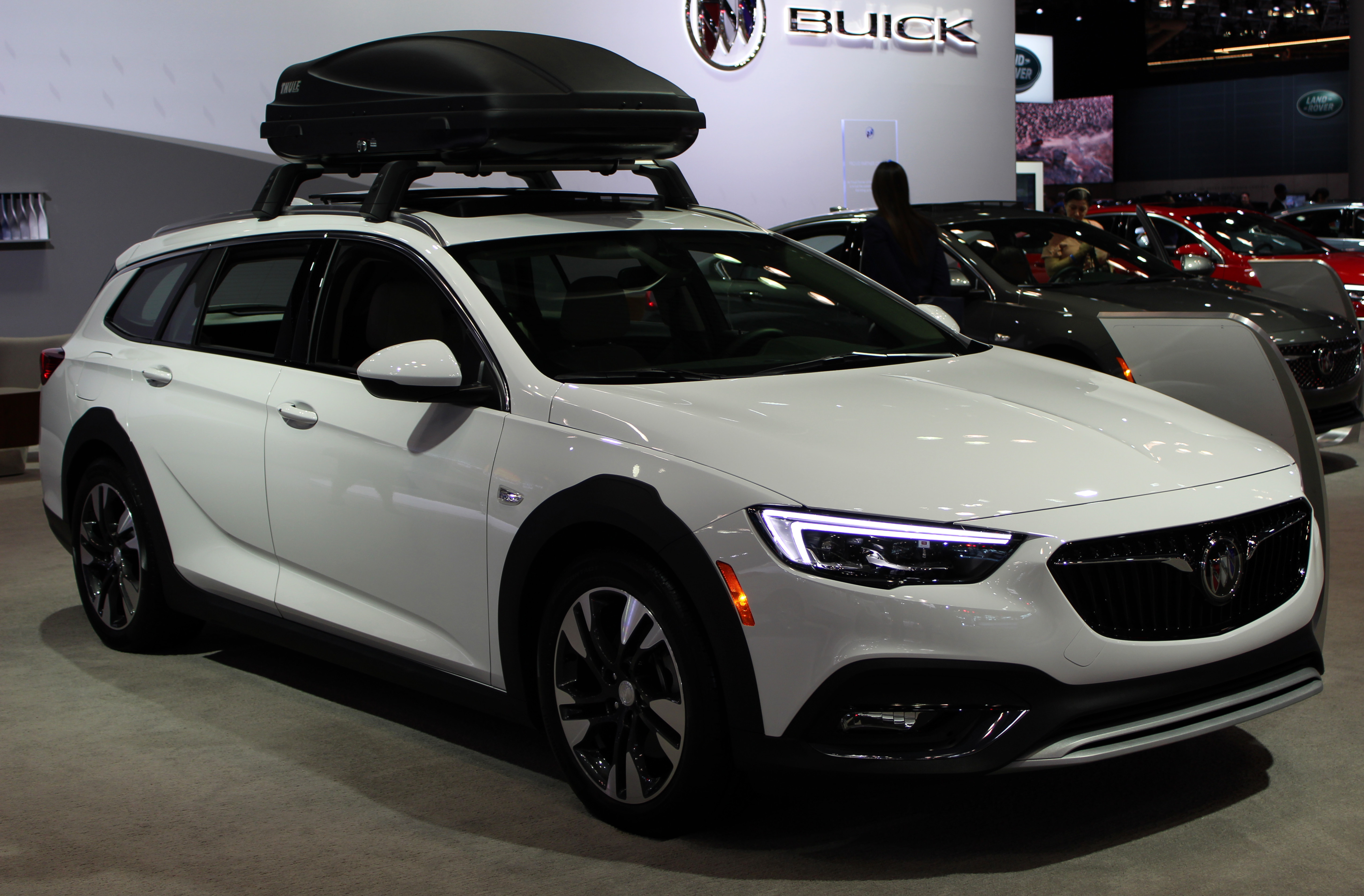 A 2019 Buick Regal TourX photographed during the 2019 New York International Auto Show, in Hudson Yards, Manhattan, NYC